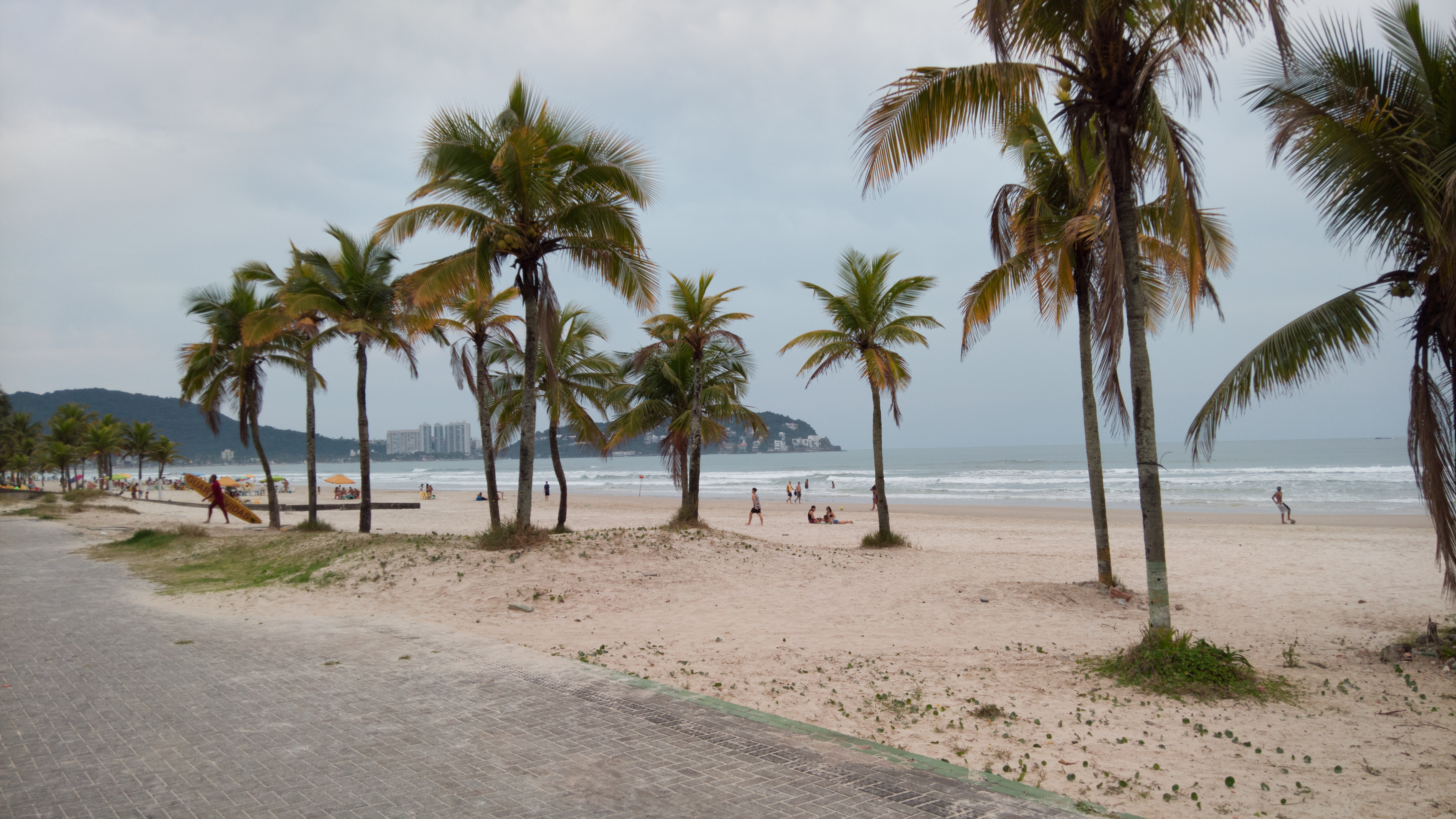 Enseada Beach, in Guarujá, São Paulo, Brazil.